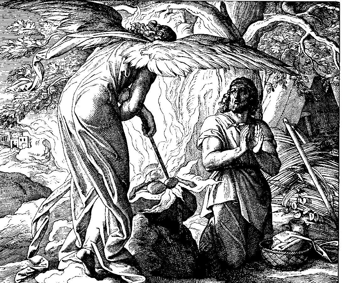 Woodcut for "Die Bibel in Bildern", 1860.